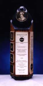 NASA image of George M. Low Trophy, copied from this image on this webpage